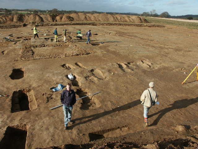 Monk's Field - A burial site or a by-pass? Unfortunately the latter. Below is a report from a site on the Internet about the dig and has been slightly reduced in size and brought into the present tense. "This archaeological site of national importance was uncovered at Partney, Lincolnshire, after being hidden for hundreds of years beneath the soil. Burial sites were revealed during the digging of an evaluation trench in a field next to the A158 road for the village bypass. Lincolnshire County Council contacted the archaeological field unit, whose work revealed remains of the Chapel of St Mary Magdalen - a Benedictine cell of Bardney Abbey - a cemetery containing 44 bodies, and a medieval hospital dating back to the 11th century. Excavations of the site which were carried out over six weeks, also uncovered evidence of a Romano-British farmstead and an early Iron Age enclosure. The archaeological Site Manager said that there were only about 60 of such minor hospitals in the country, and this was the first to have been excavated. Some of the bodies had been buried with chalices of gold and silver and others with pewter, a symbolic metal signifying the deceased's status as a priest. Their bones will be interred at a later date, and the finds, including coins, clasps, and fragments of medieval pottery will be held for research at the City and County Museum, Lincoln. Once excavations are completed the site will be hidden again, to be covered over by the bypass." The whole dig - The by-pass